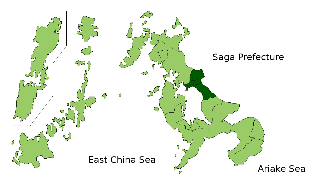 The location of Higashisonogi_District in Nagasaki Prefectuur, Japan